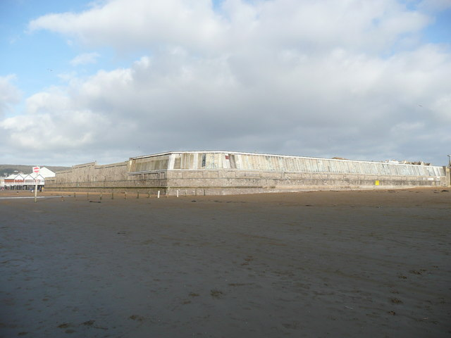 The Tropicana, Weston-super-Mare.